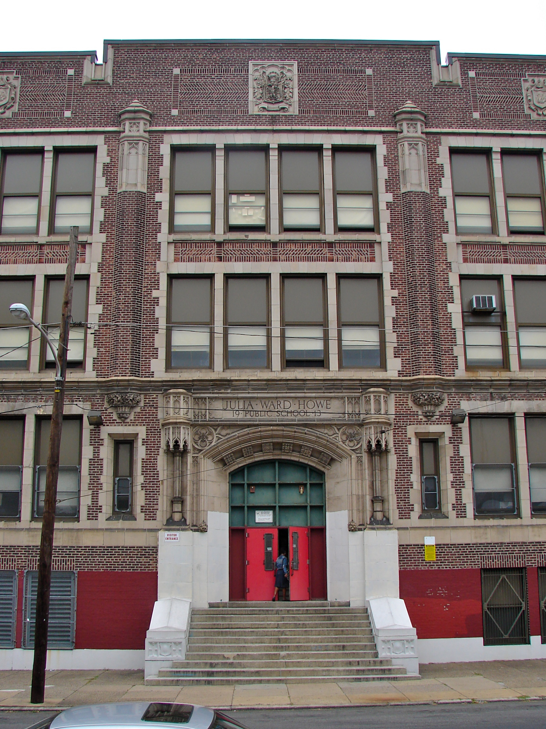 Julia Ward Howe School building in Philadelphia on the NRHP since November 18, 1988. At 5800 N. 13th St. in the neighborhood of Fern Rock in North Philly.